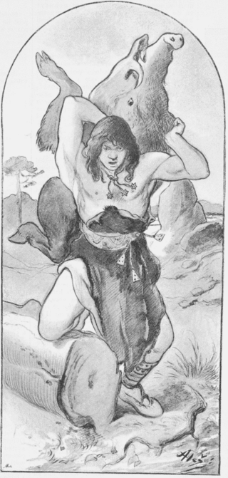 Bivoj, a legendary strong man from Bohemia that captured a wild pig without any weapon and brought it on his shoulders to Princess Libuše; he later married her sister, Kazi. Bivoj´s story has been described in Czech literature, most famously in Jirásek´s Old Czech Legends (Staré pověsti české).